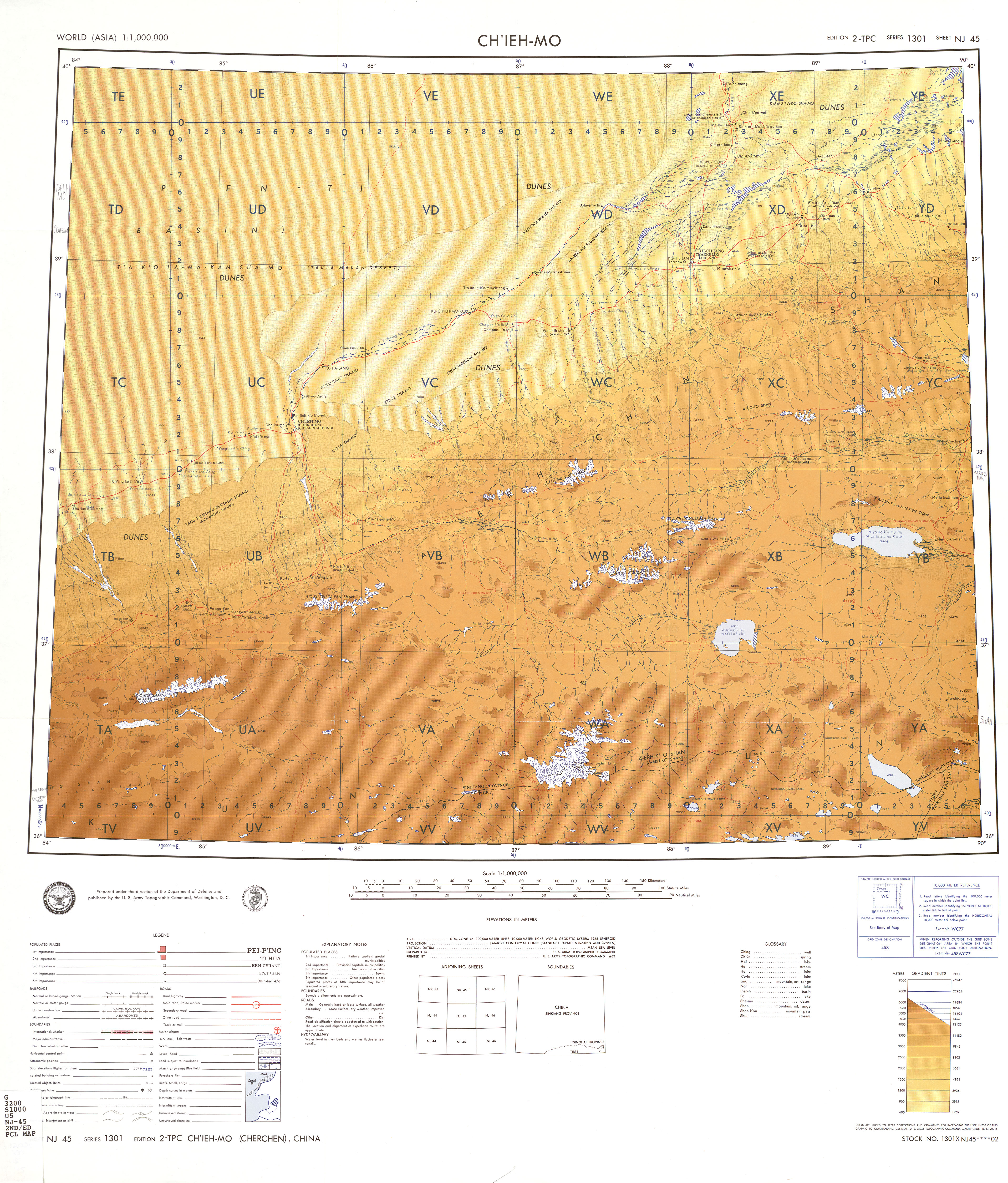 Map from the International Map of the World 1:1,000,000